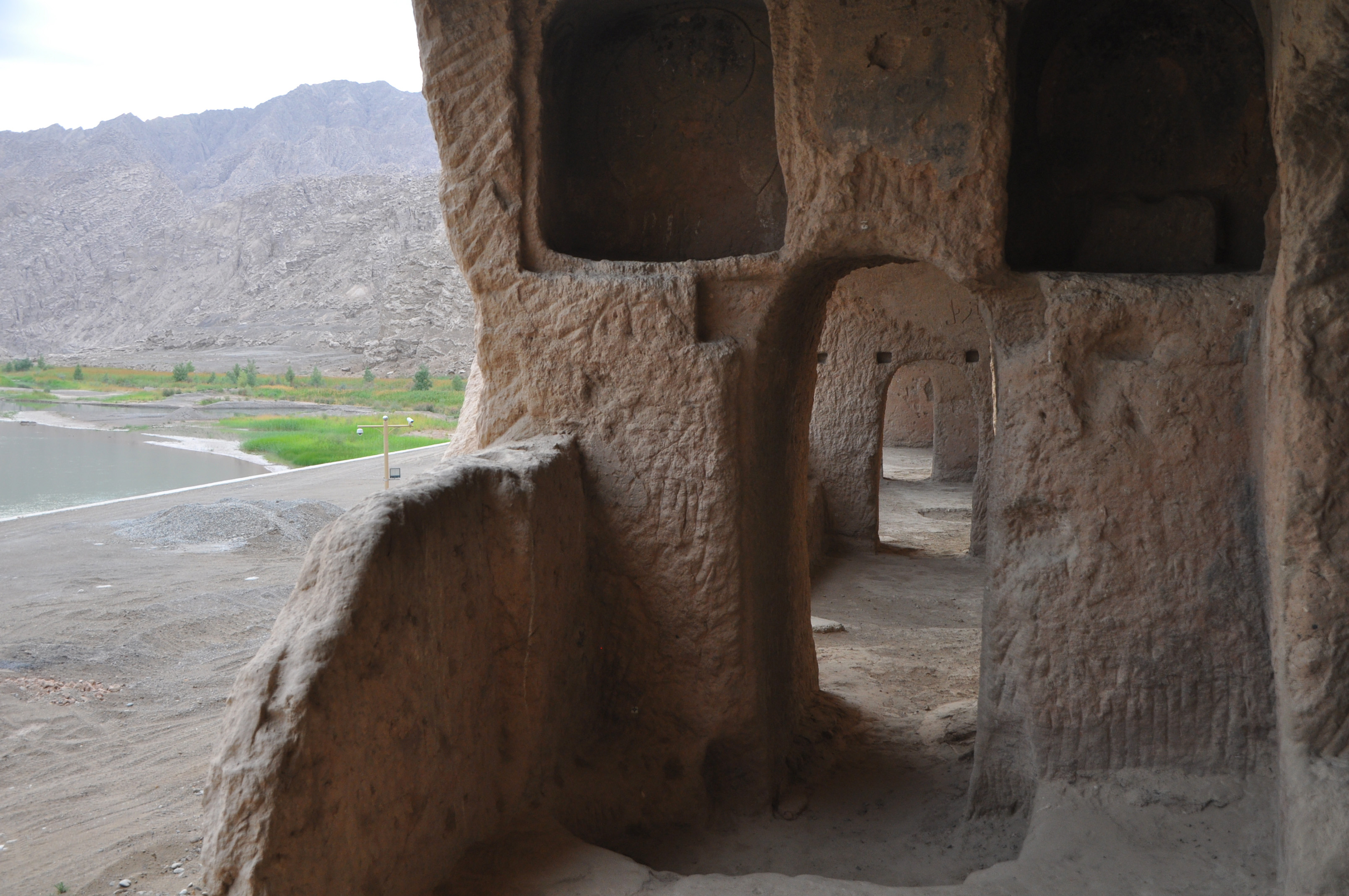 Kumtula Grottoes 2 - Cave & River, Kuqa, Xinjiang, China